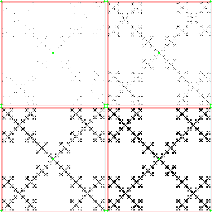 The Vicsek fractal is created when a point jumps at random 2/3 of the way towards either the center or one of the four vertices of a square